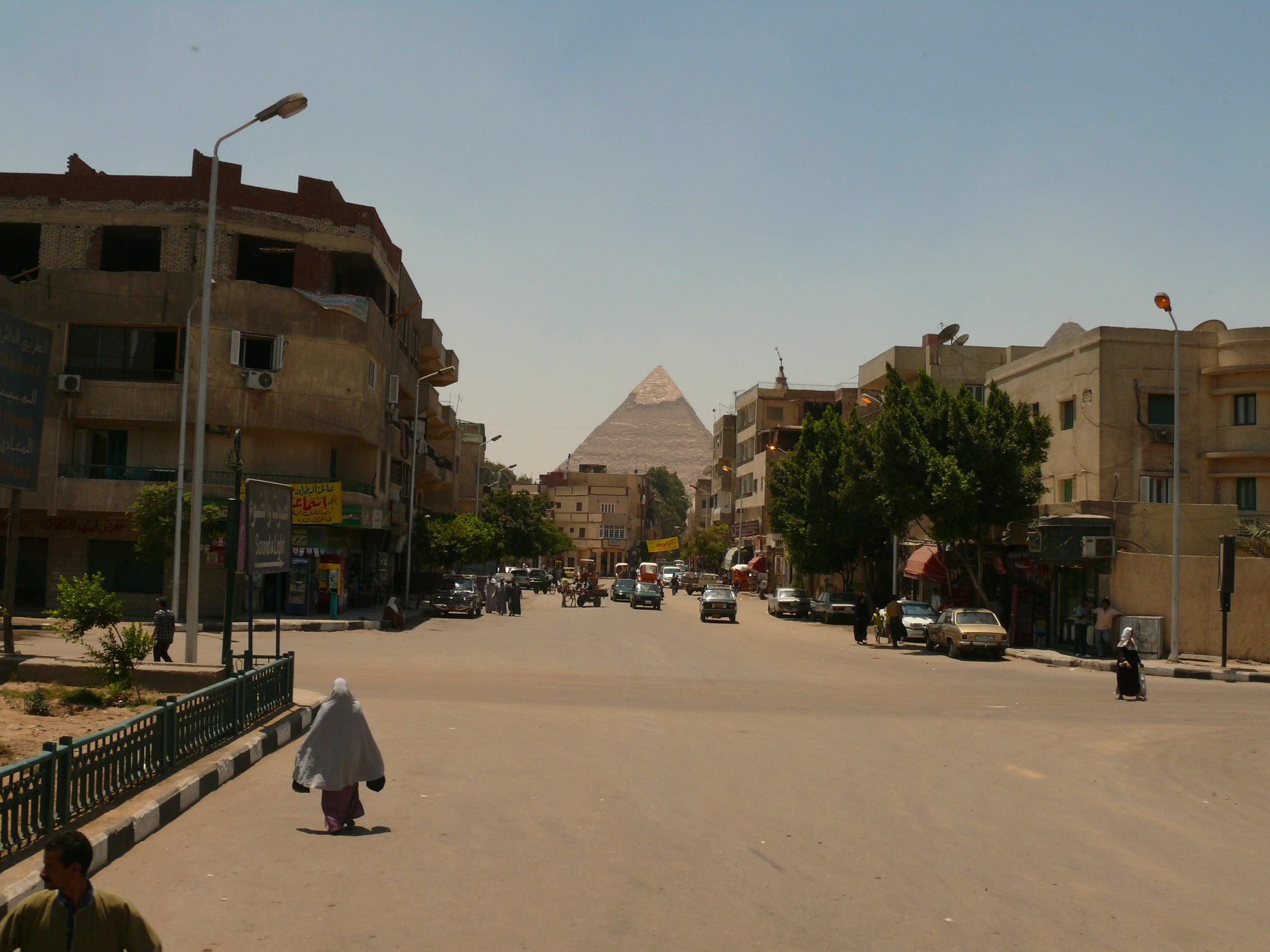 Giza- pyramid view